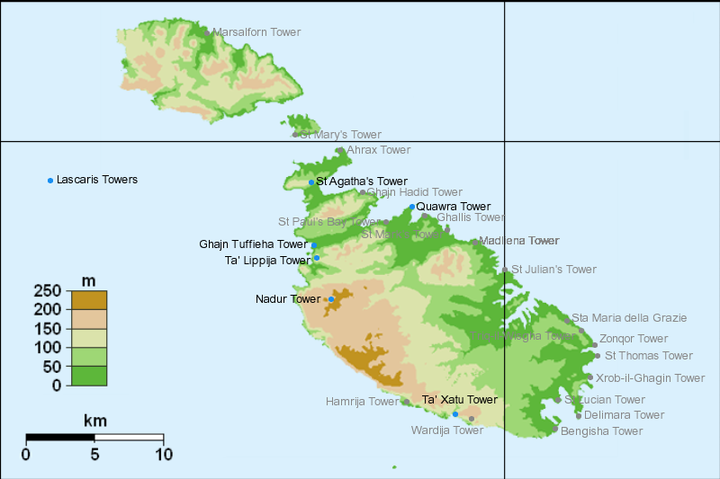 Lascaris Towers in Malta. Content based on Quentin Hughes: Malta: a guide to the fortification, 1993 and Stephen C. Spiteri: Fortresses of the Knights, 2001